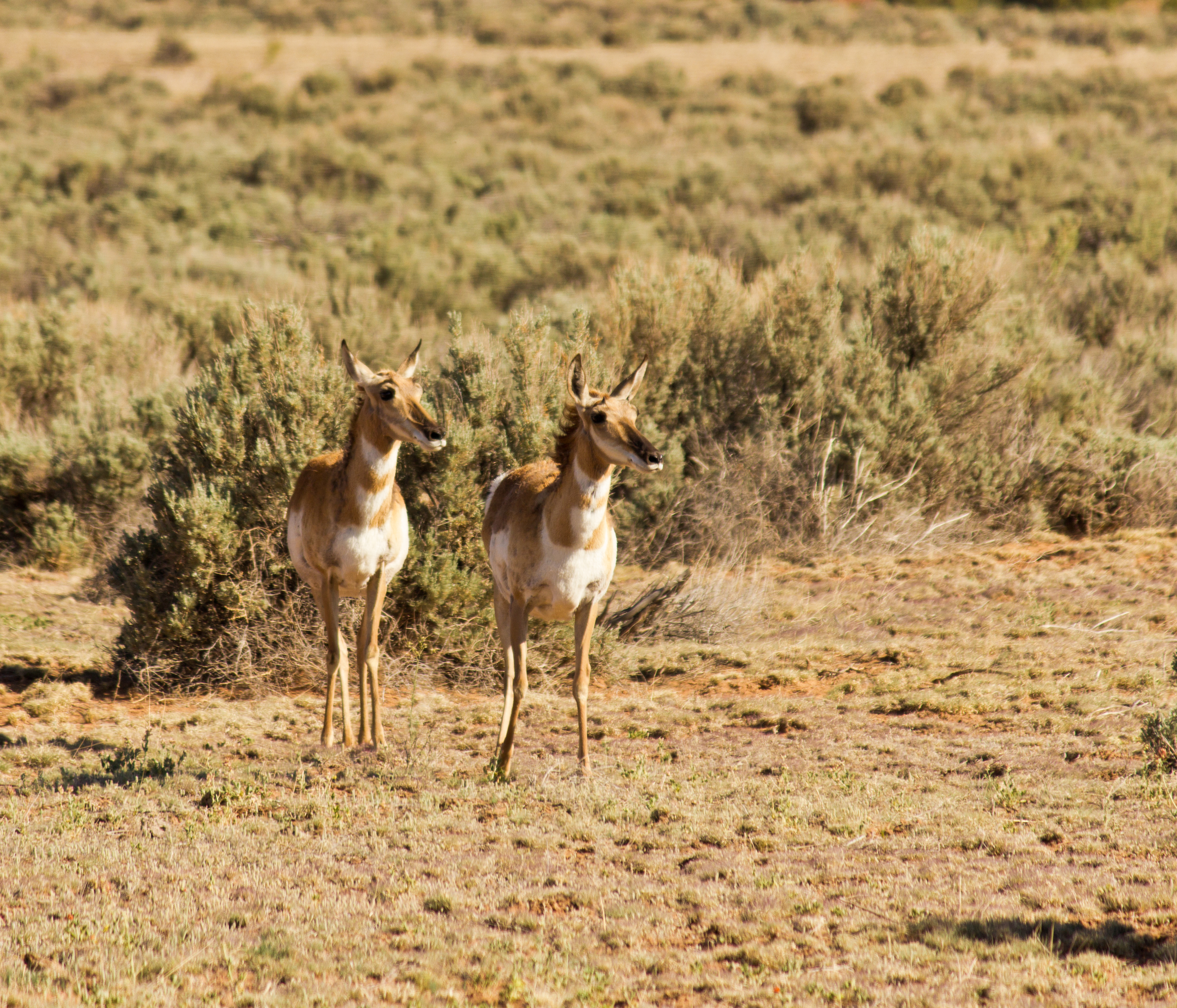 The pronghorn is a species of mammal located in the interior western and central North America. Canyonlands, Utah.